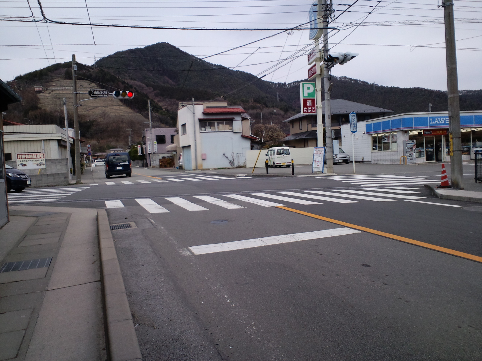 Shimoyoshida eki mae intersection (Taken from South east).